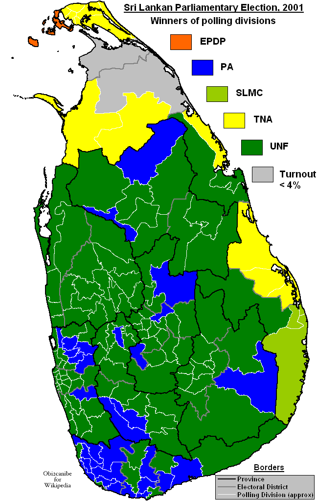 Map showing winners of polling divisions in the Sri Lankan parliamentary election of 2001.